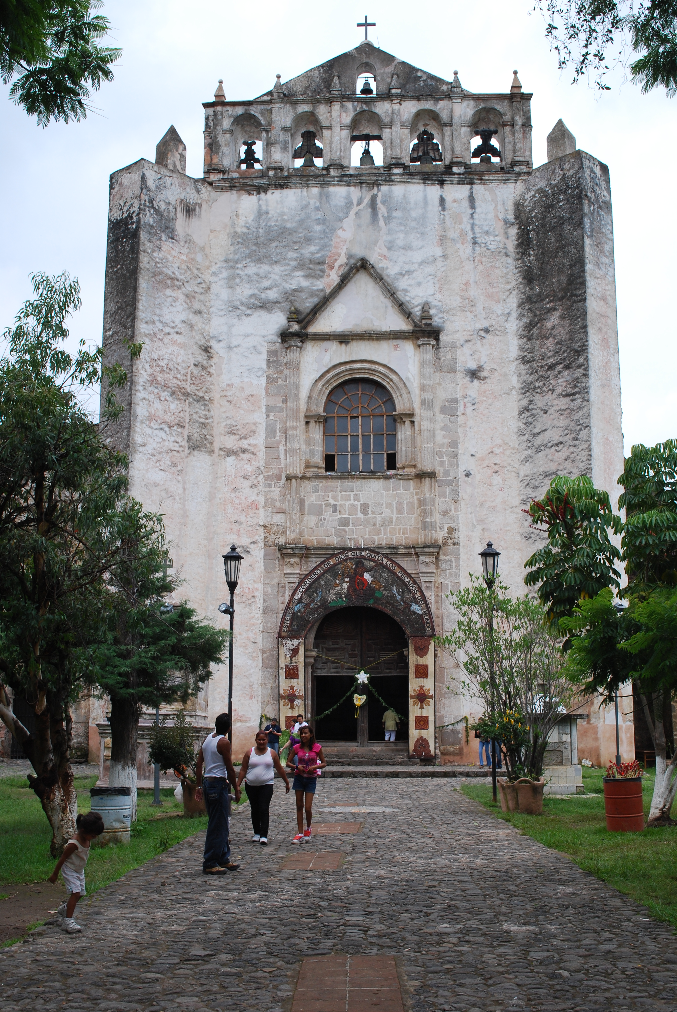 Facade of the Church of San Juan Bautista, Tlayacapan, Morelos, Mexico